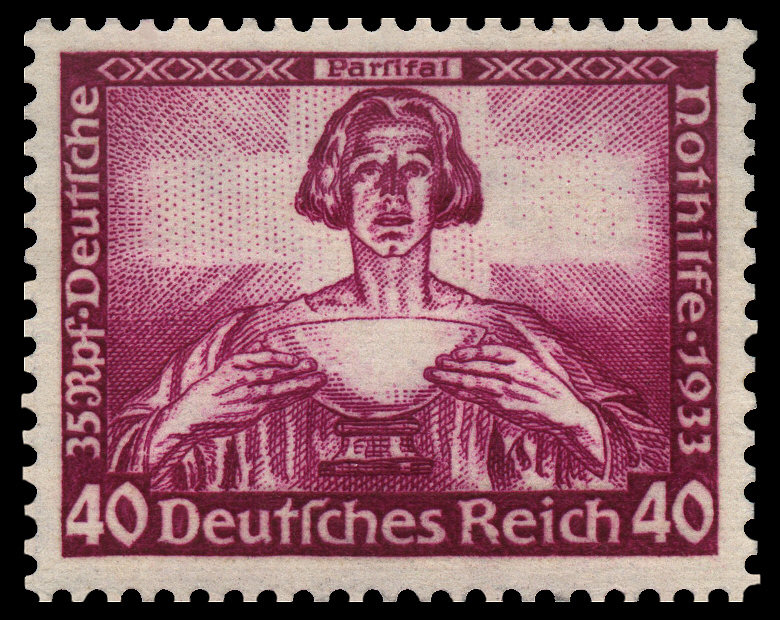 Series for social help with pictures of the work of Richard Wagner Ausgabepreis: 40+35 Reichspfennig First Day of Issue / Erstausgabetag: 1. November 1933 Michel-Katalog-Nr: 507 (Deutsches Reich)